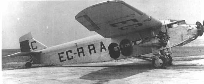 Ford 4 AT trimotor operated by CLASSA. Breve historia de Iberia